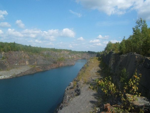 A view down the eastern part of the East Pit at Sherman Mine, Temagami, Ontario.